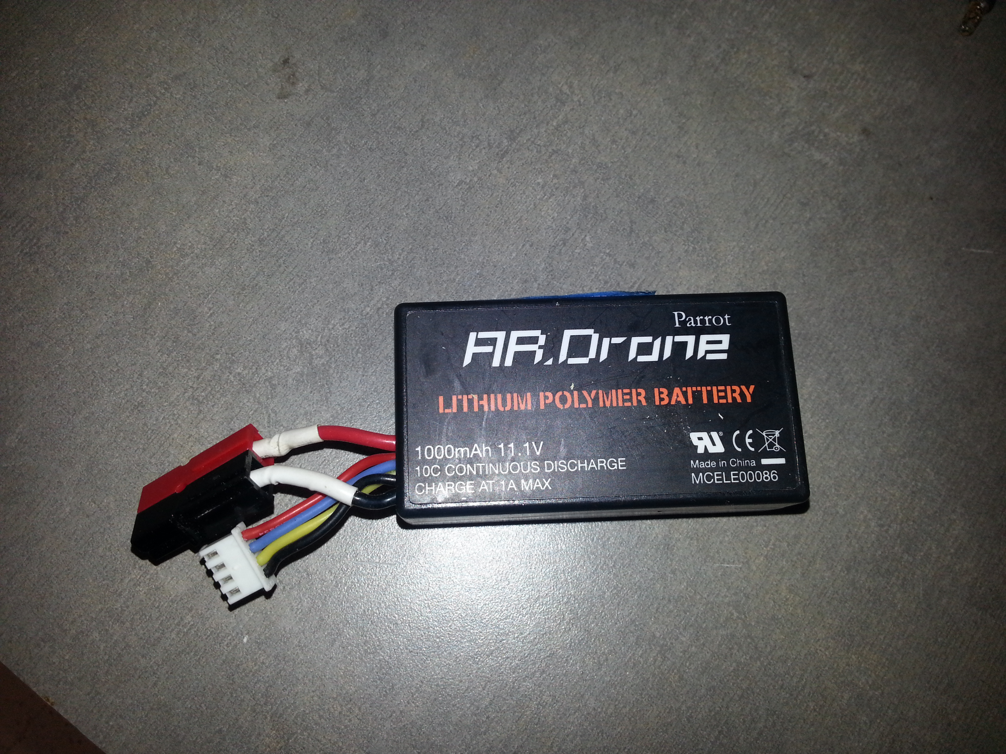 Lithium Polymer Battery